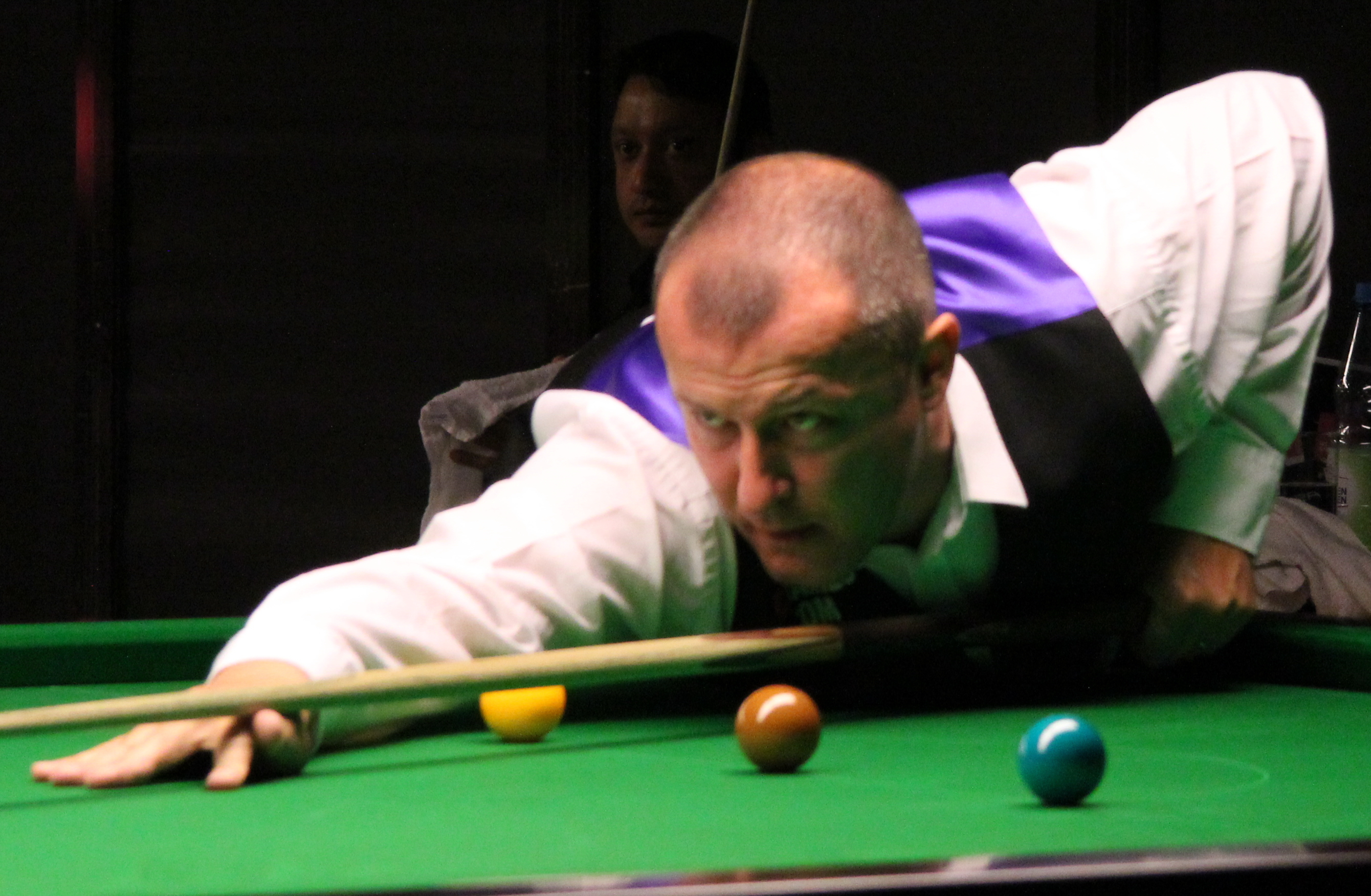 Ian McCulloch beim Paul Hunter Classic 2011